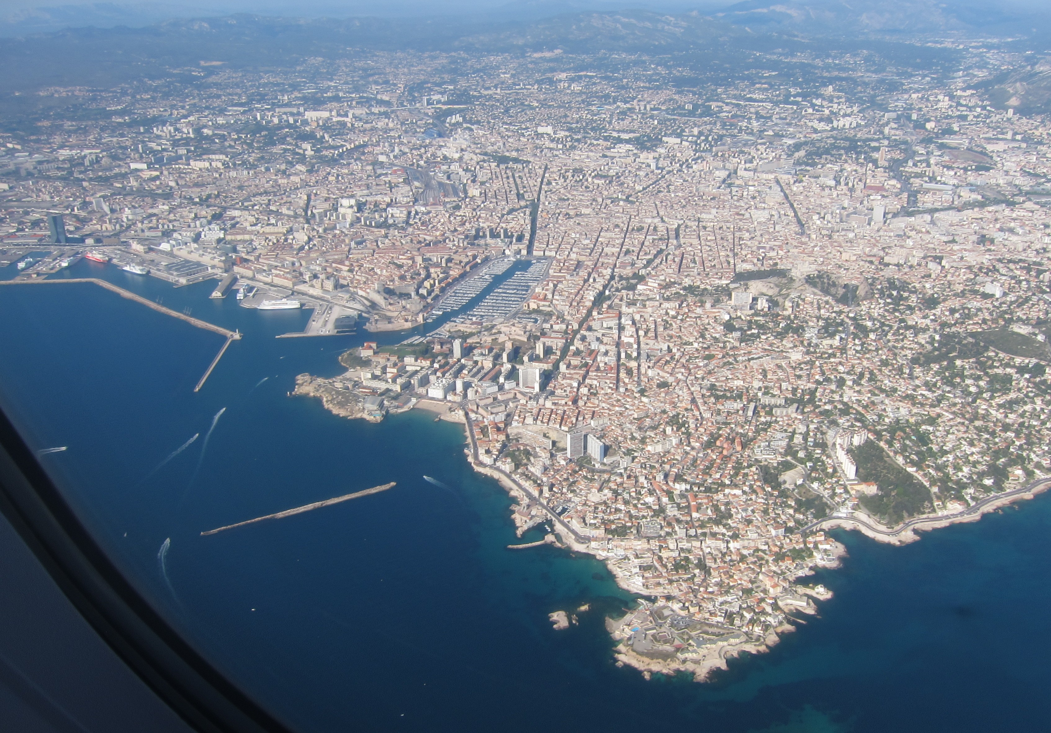 An aerial photograph of Marseille